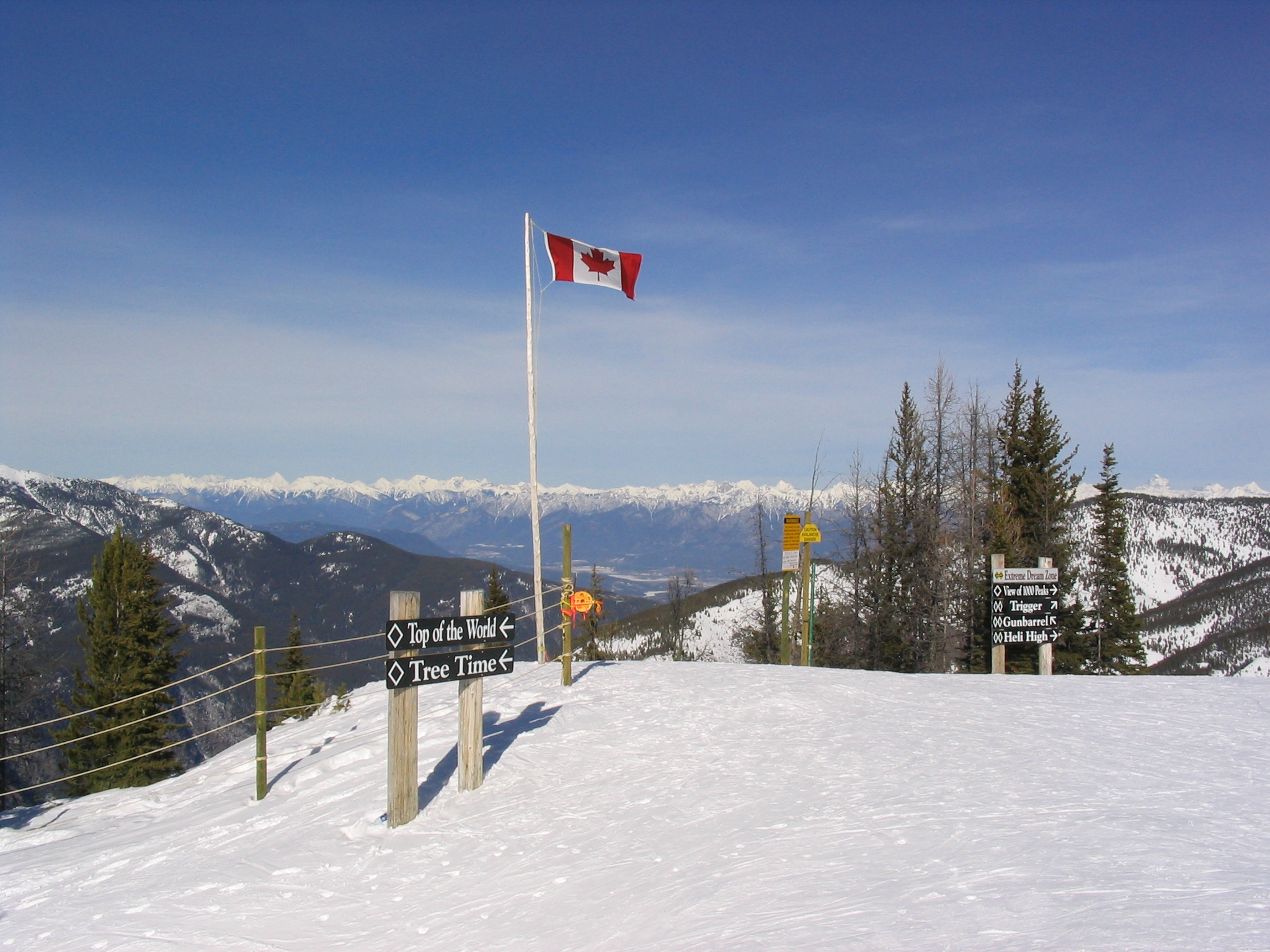 "View of a 1000 Peaks" from the summit of the Panorama Mountain Village ski resort. British Columbia, Canada.